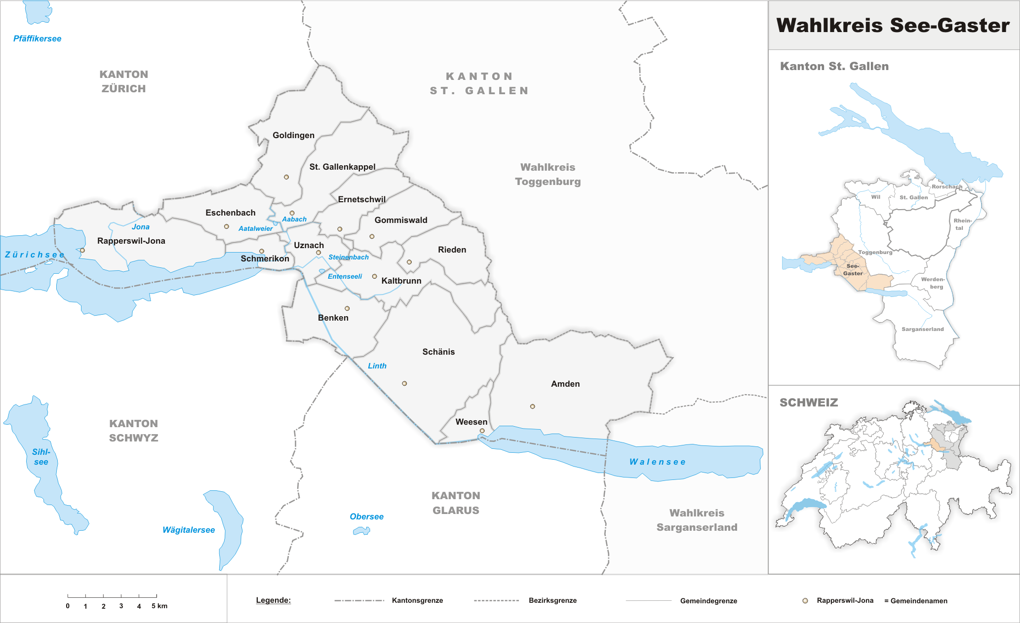 Municipalities in the district of See-Gaster